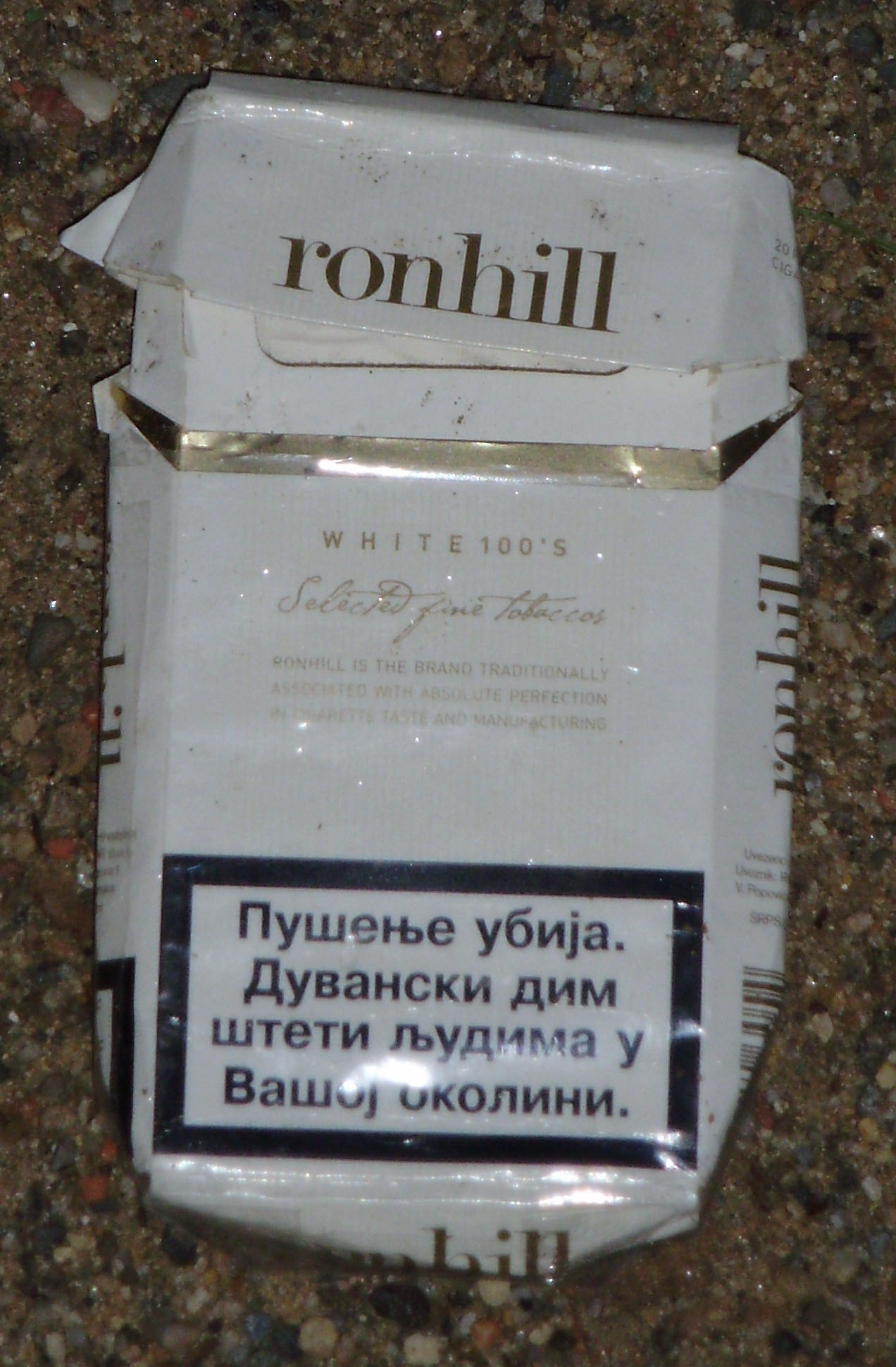 Discarded packaging of Ronhill White 100's cigarettes in Serbia.